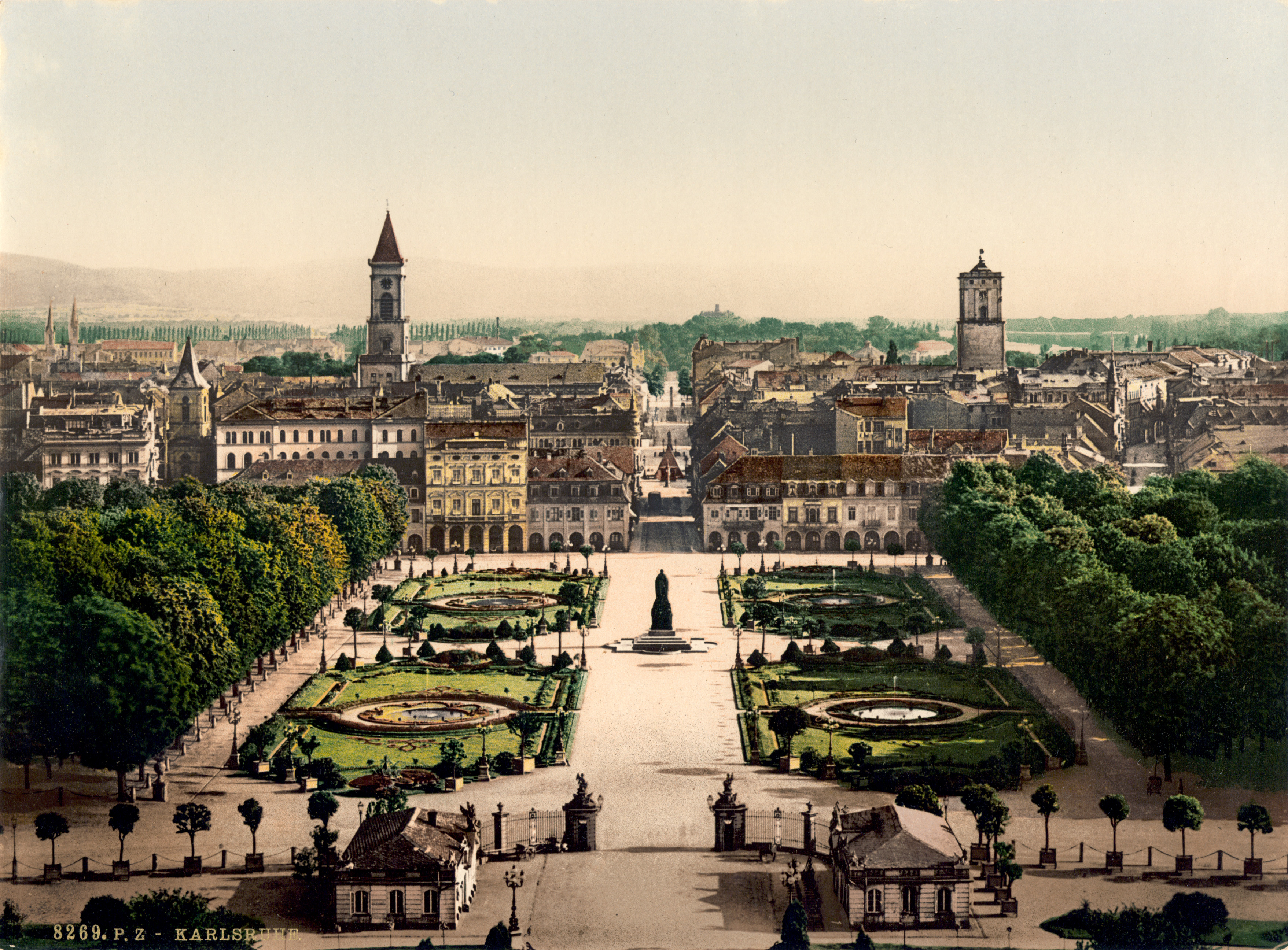 Karlsruhe, general view, Baden, Germany Print no. "8269"